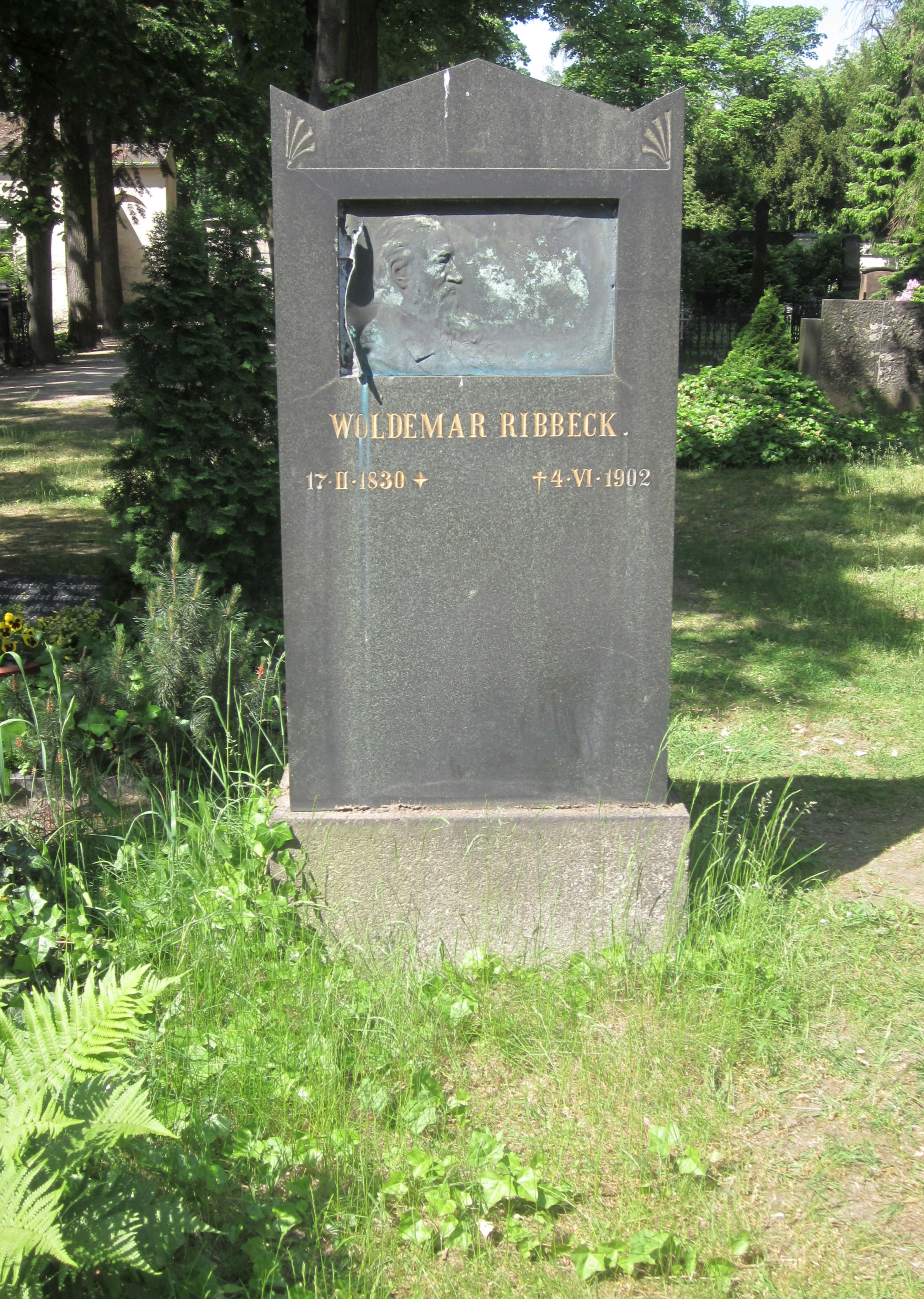 Grave of the philologist and teacher Woldemar Ribbeck (1830-1902) on the Cemetery I of the Trinity Church at Mehringdamm in Berlin-Kreuzberg.